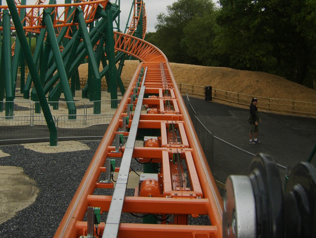 Magnetic braking mechanism on a steel roller coaster (Speed at Oakwood Theme Park. The metal retractable fins are shown to the right side of the track